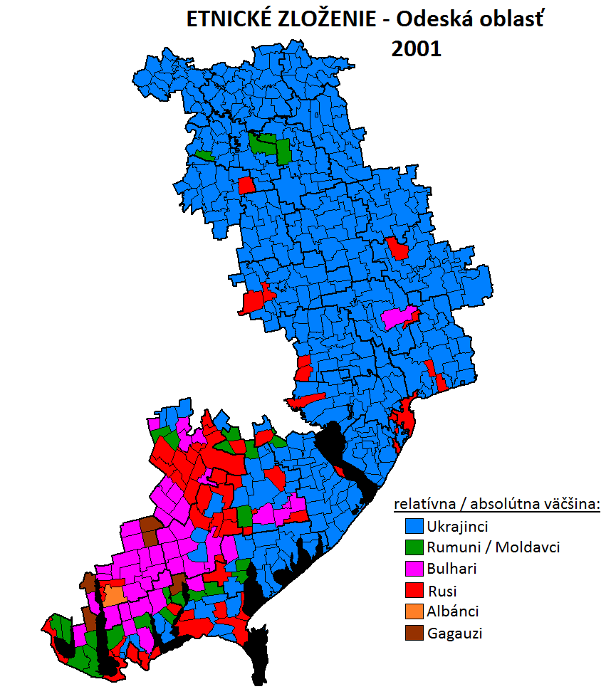 Ethnic structure